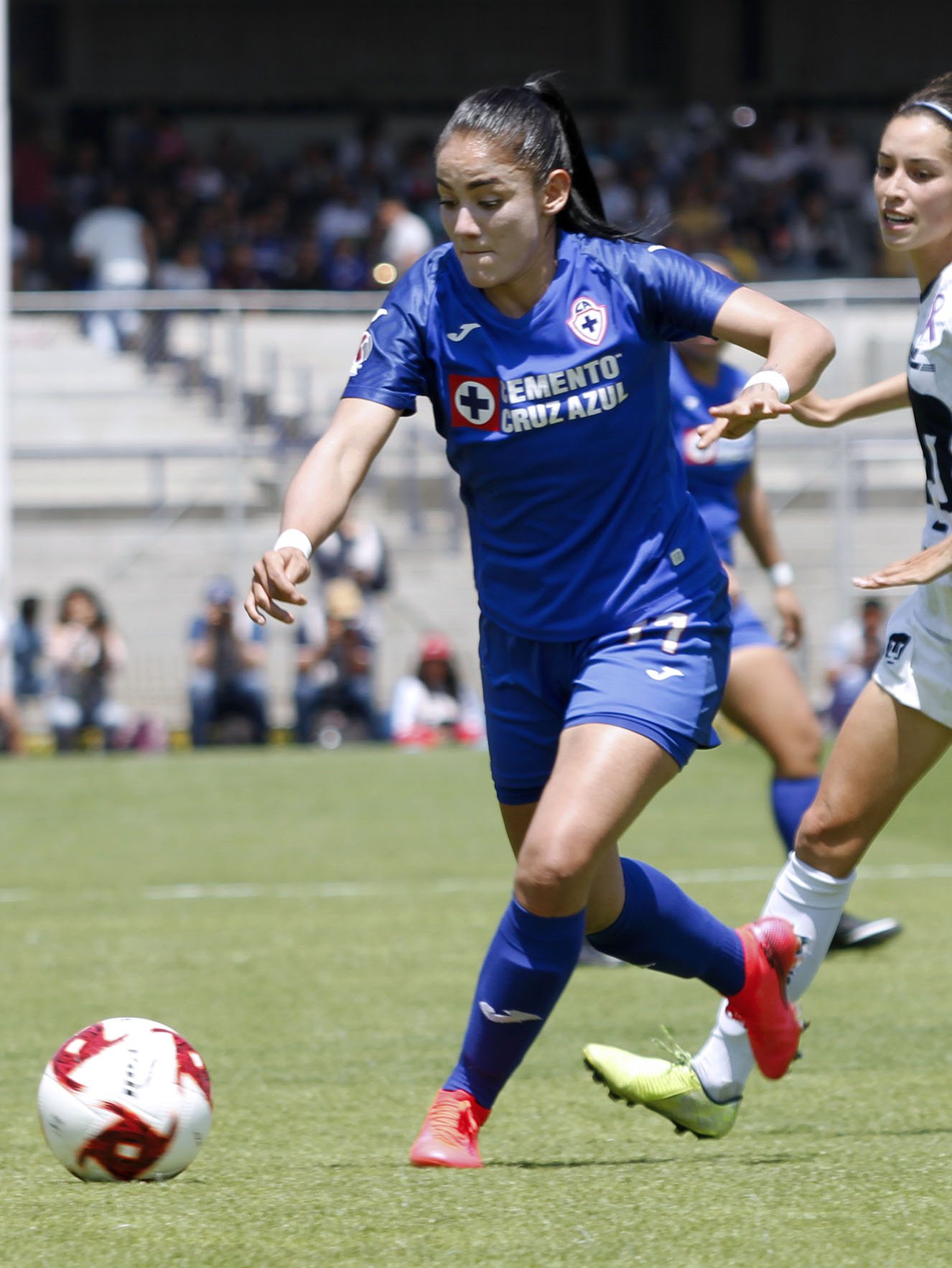 Brenda García from Cruz Azul (left) and Diana Gómez from UNAM (right)